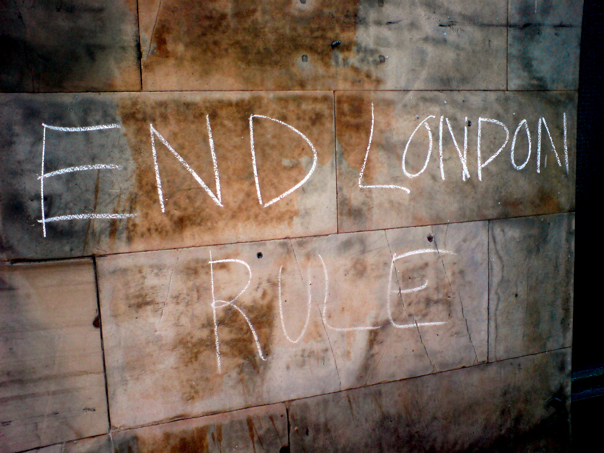 "End London Rule"; Scottish nationalist graffiti on Victoria Street, Edinburgh.